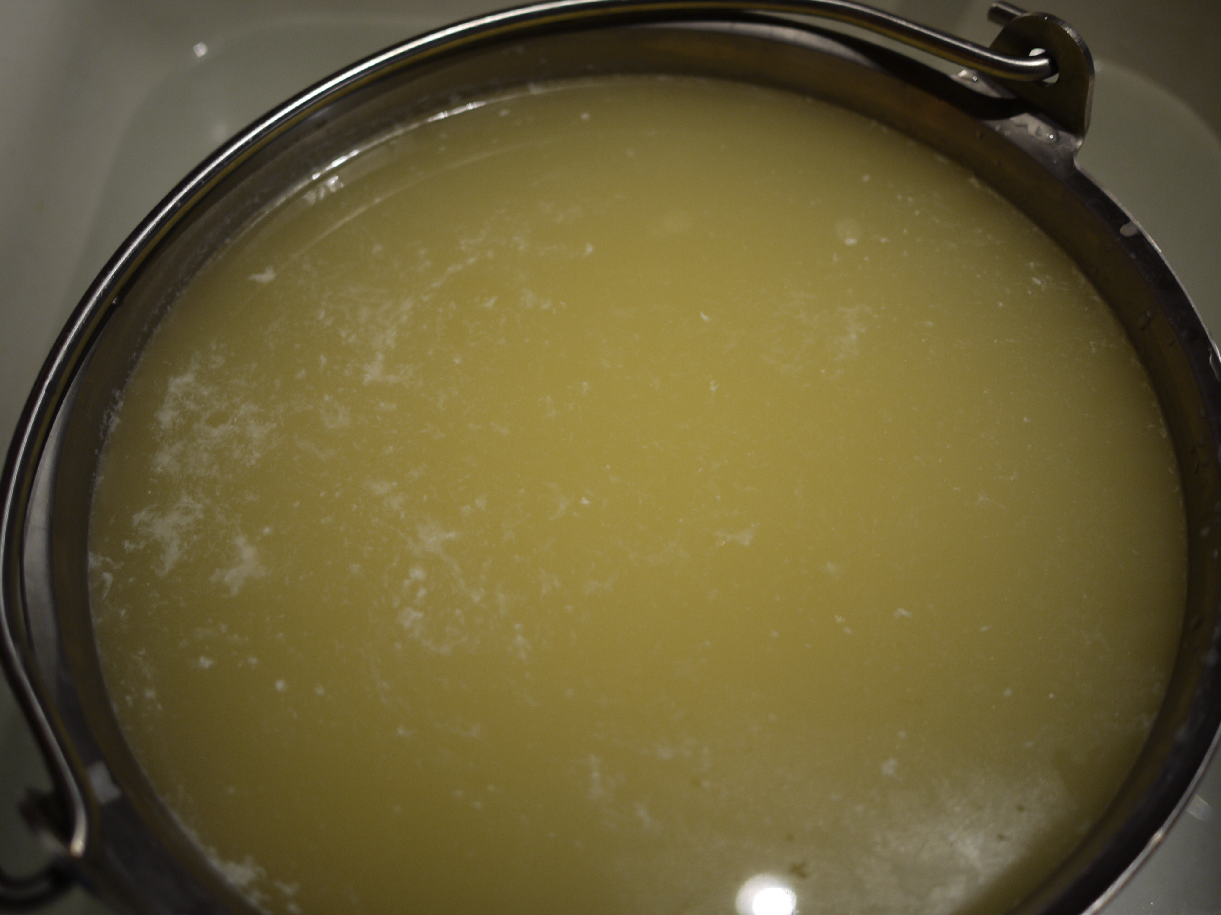 Whey left over from making goats cheese.